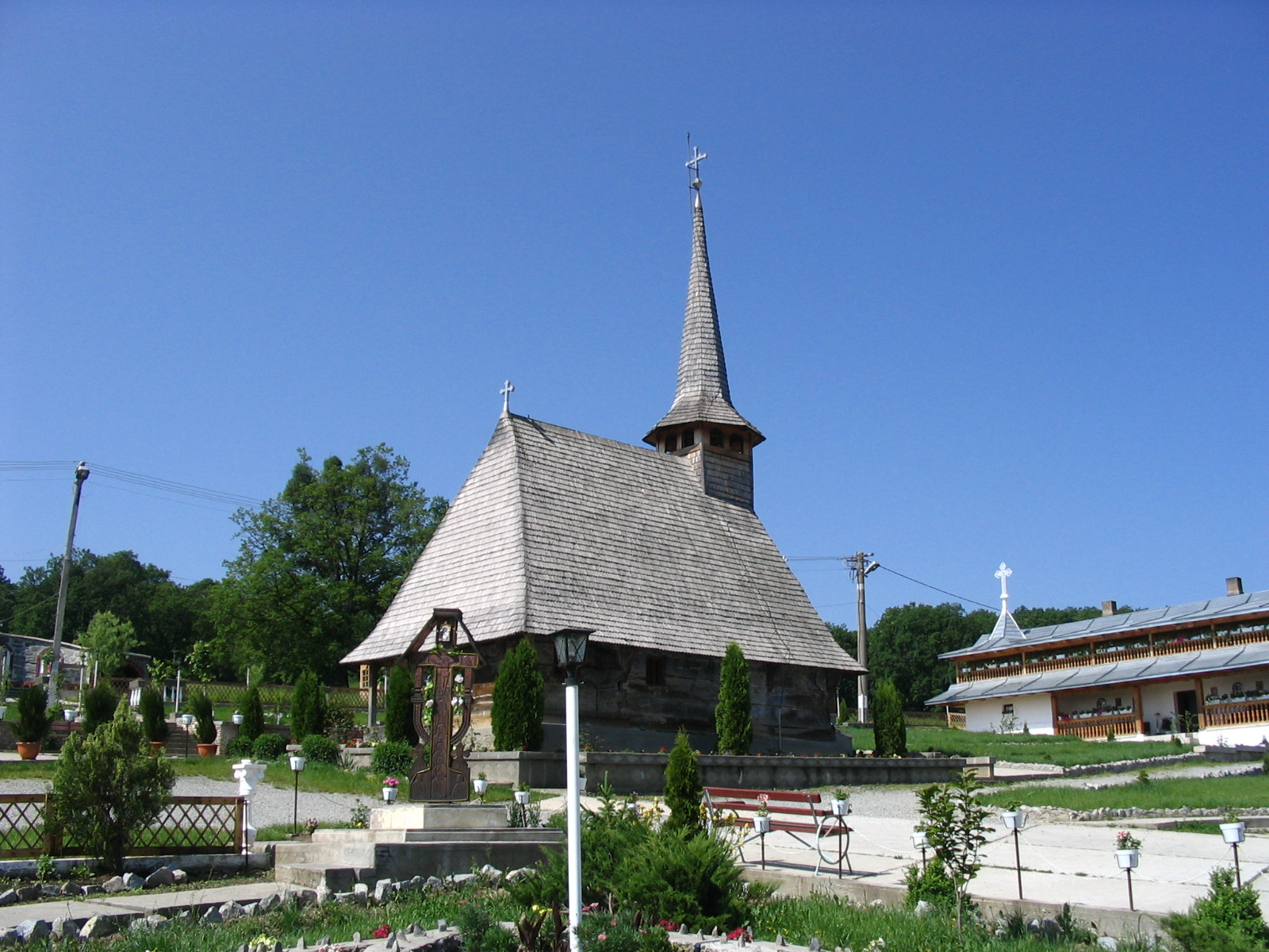 Wooden church of Stâna, transferred to Bic Monastery in 1997